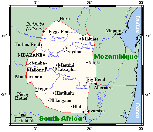 A map showing Eswatini's cities and selected towns.